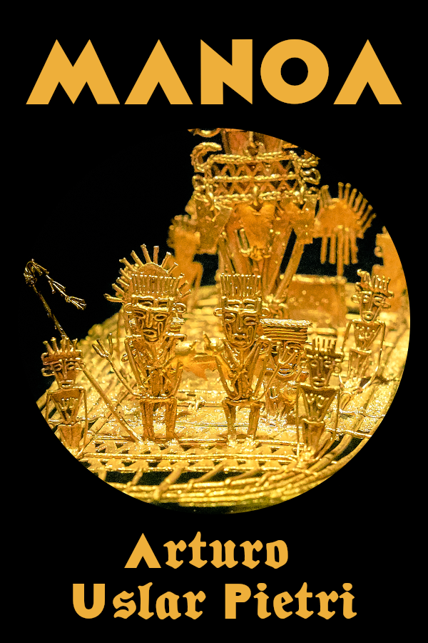 Conceptual art inspired by the book of poems of Arturo Uslar Pietri. Derivative work of this picture: Using Viafont and Fette National Frakturt fonts, both published under GPL license in Dafont: 1) 2) The book cover was made using GIMP, a free-libre-open-source (FLOSS) software.